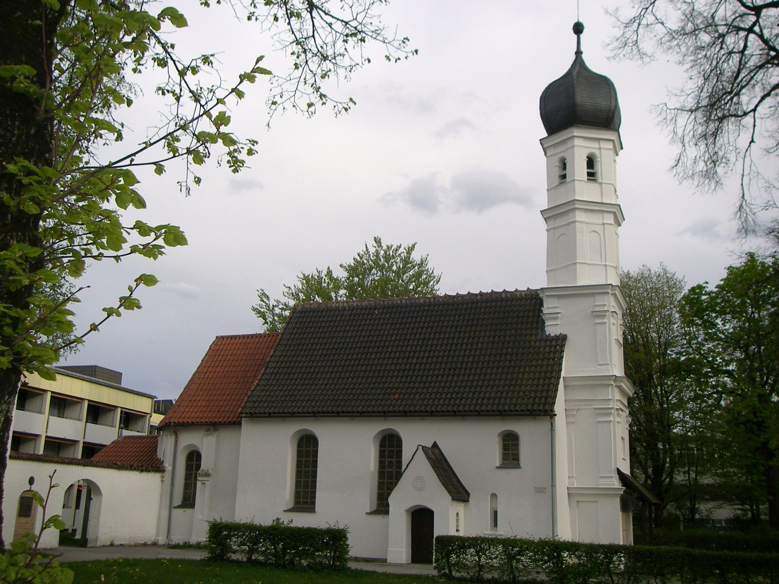 St. Dominikus Church, Kaufbeuren, Bavaria, Germany